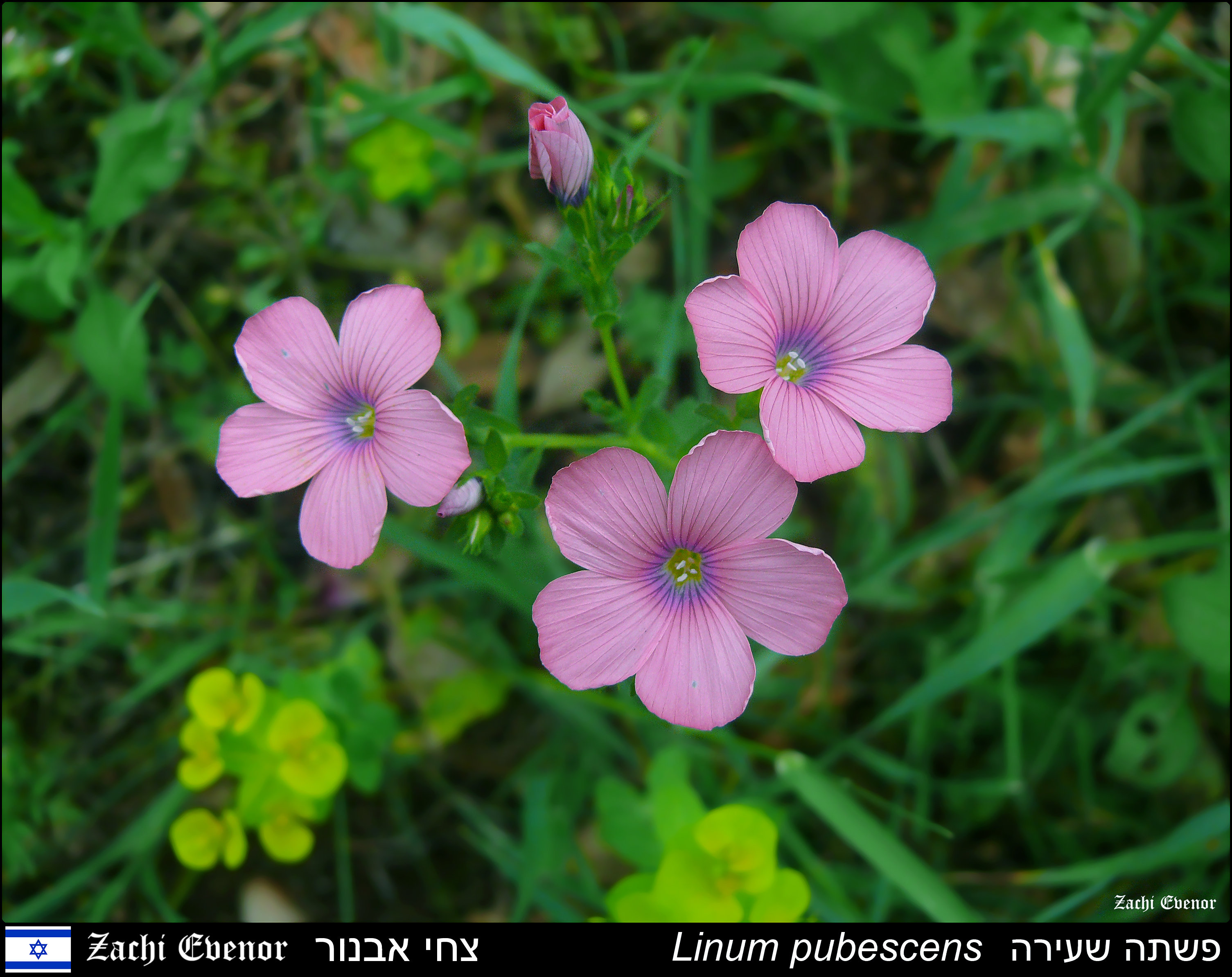 Linum pubescens, Horashim Forest, Israel